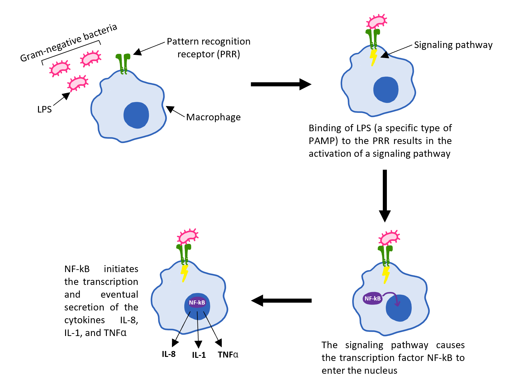 Depiction of how LPS (an example of a specific pathogen-associated molecular pattern or PAMP) is recognized by a pattern recognition receptor (PRR) on the surface of a macrophage. Binding of the PAMP to the PRR results in the eventual release of the cytokines IL-8, Il-1, and TNFα which allows for phagocytic neutrophils to enter from blood vessels into the affected tissue.